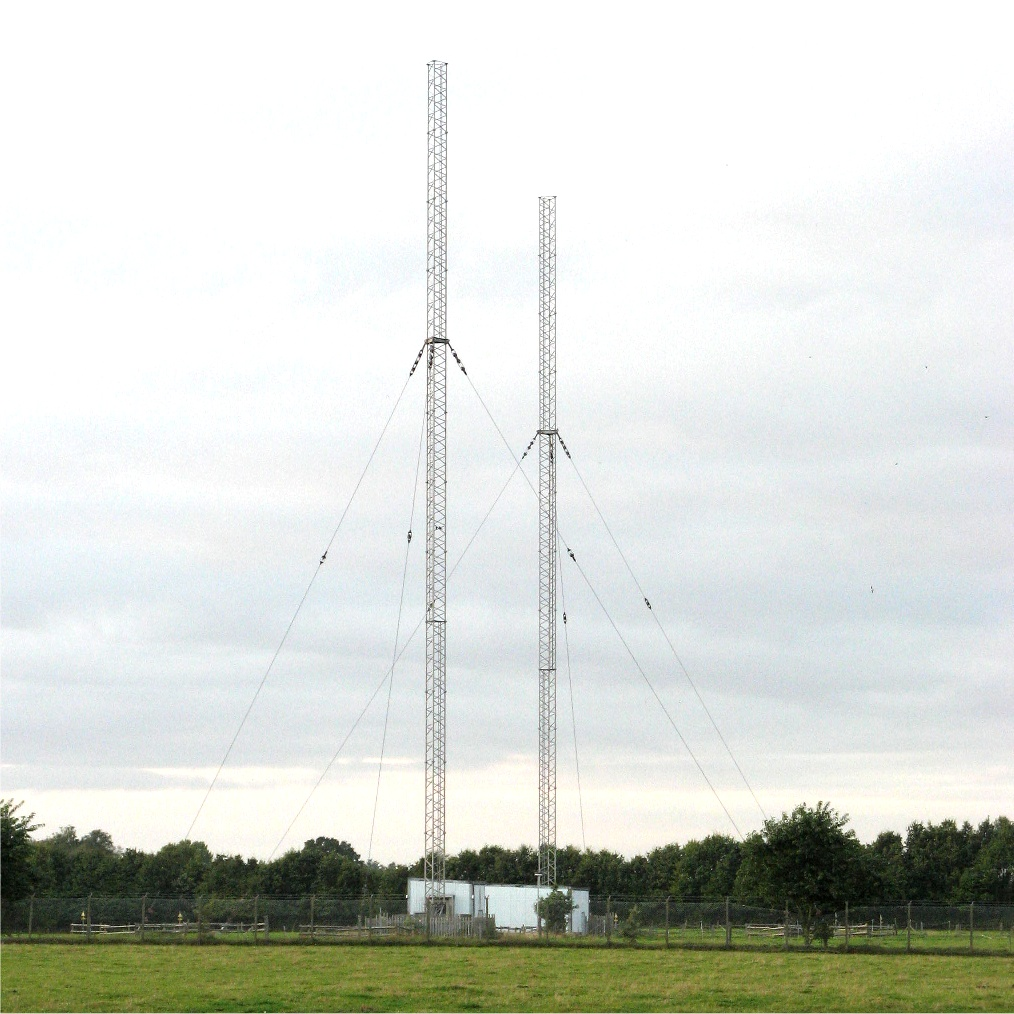 MW Transmitting Site of Deutschlandfunk 1269 kHz at Ehndorf / Neumuenster